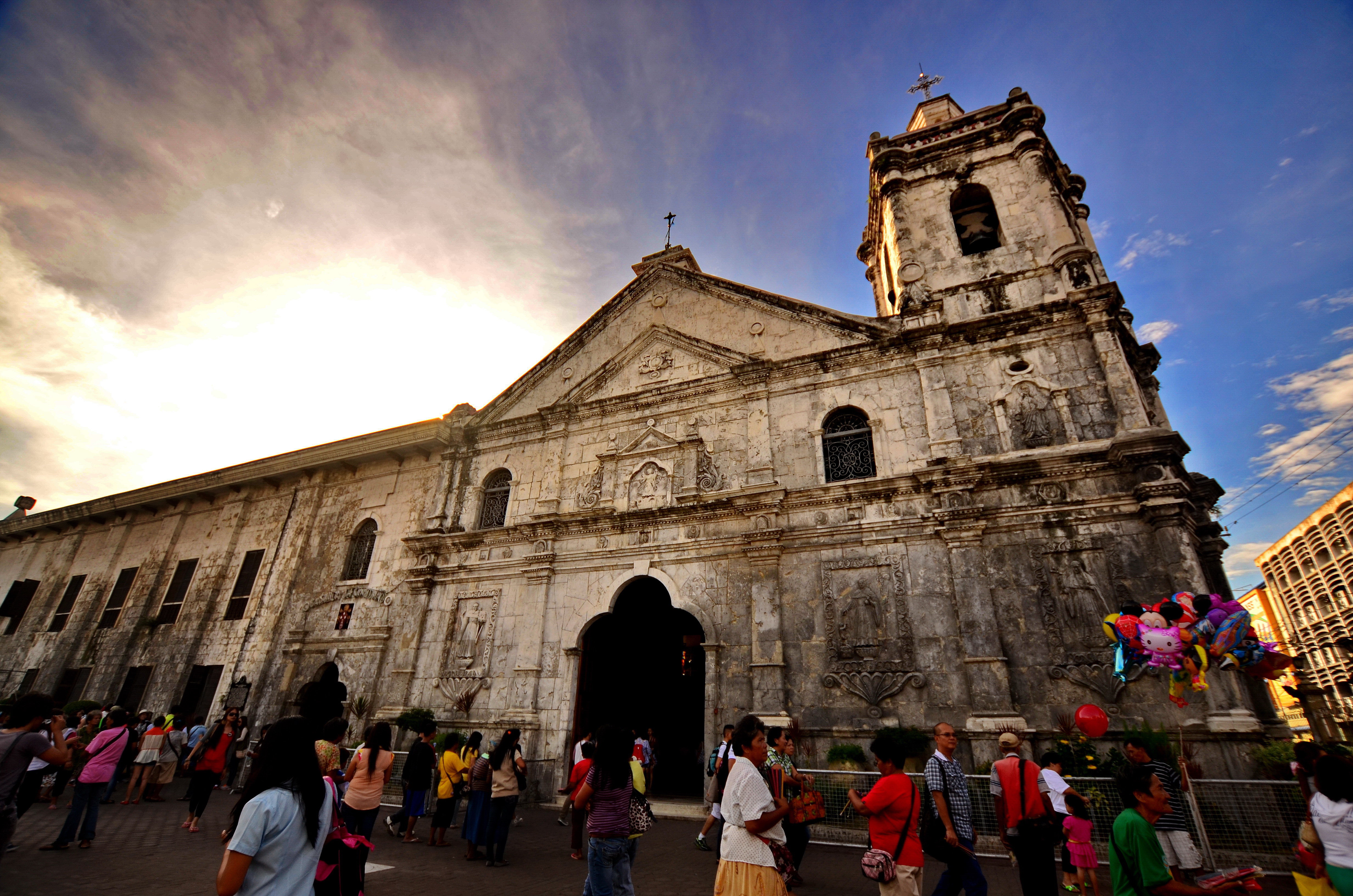 The Minor Basilica of the Holy Child, Cebu CIty